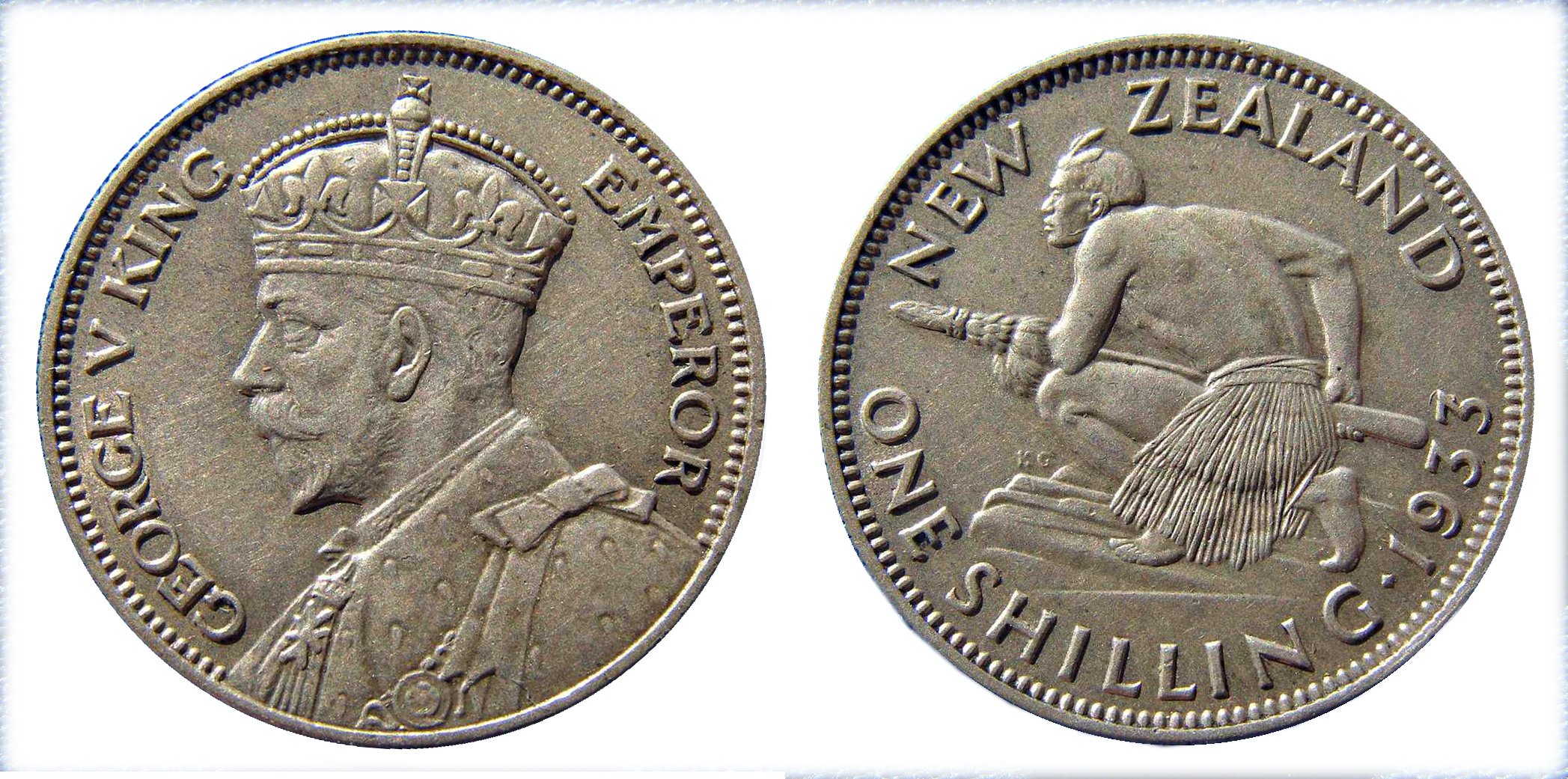 New Zealand 1st Shilling Coin 1933